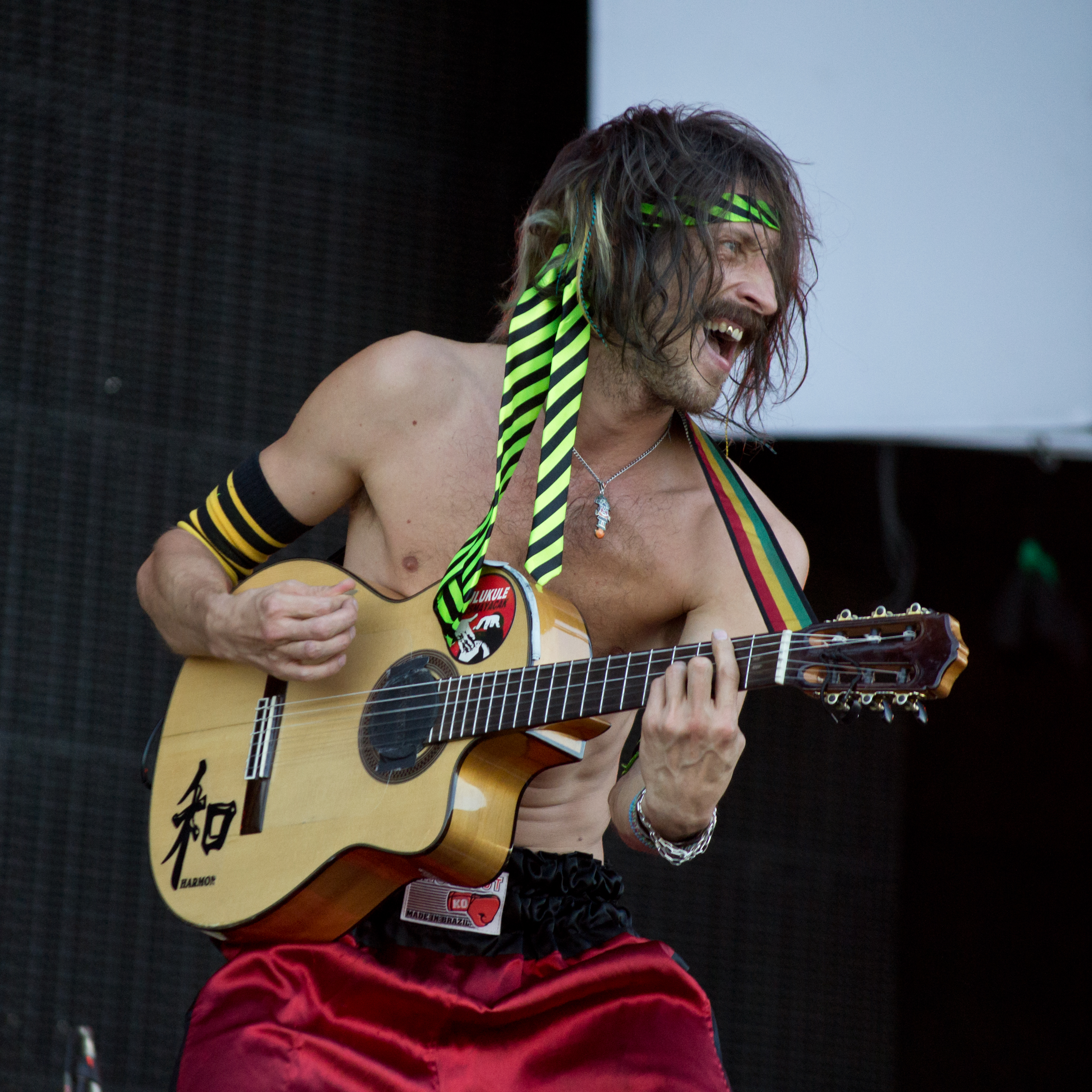 Gogol Bordello in Rock in Rio Madrid 2012.